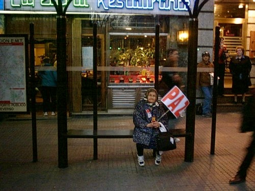 Taken with a €60 genius camera in a demonstration against Iraq war of aggression in Madrid (Spain) March, 22 of the year 2003.